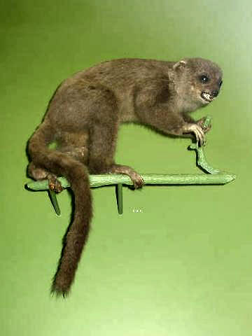 Description: Gray Gentle Lemur - Source: own work - Location: American Museum of Natural History, New York - Author: self, User:Stavenn